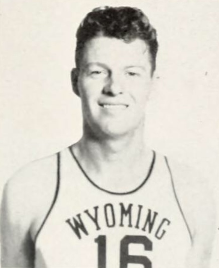 University of Wyoming basketball player Jim Weir from the 1943 “Wyo” yearbook